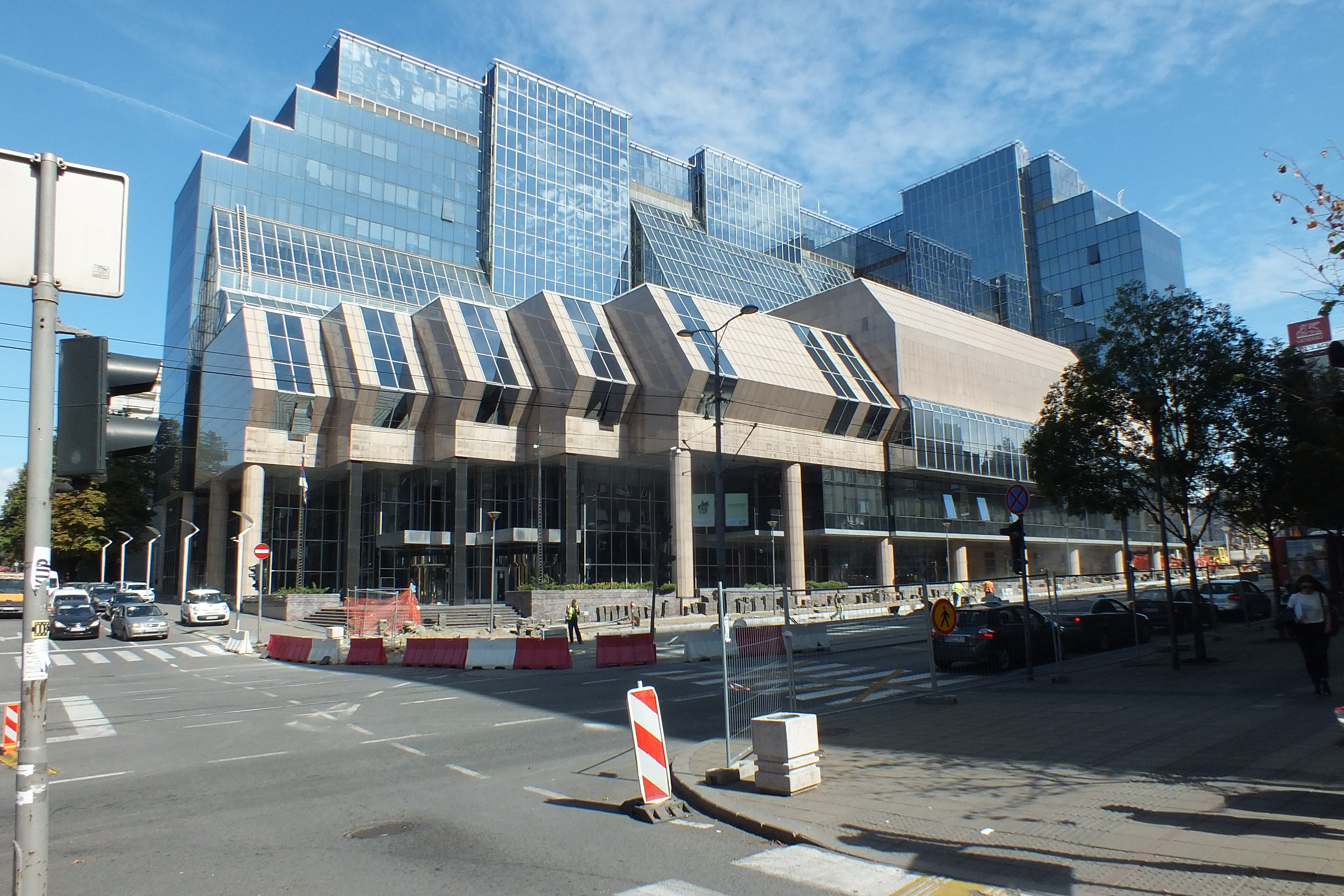 Headquarters of the National bank of Serbia in Belgrade Српски (ћирилица): Народна банка Србије